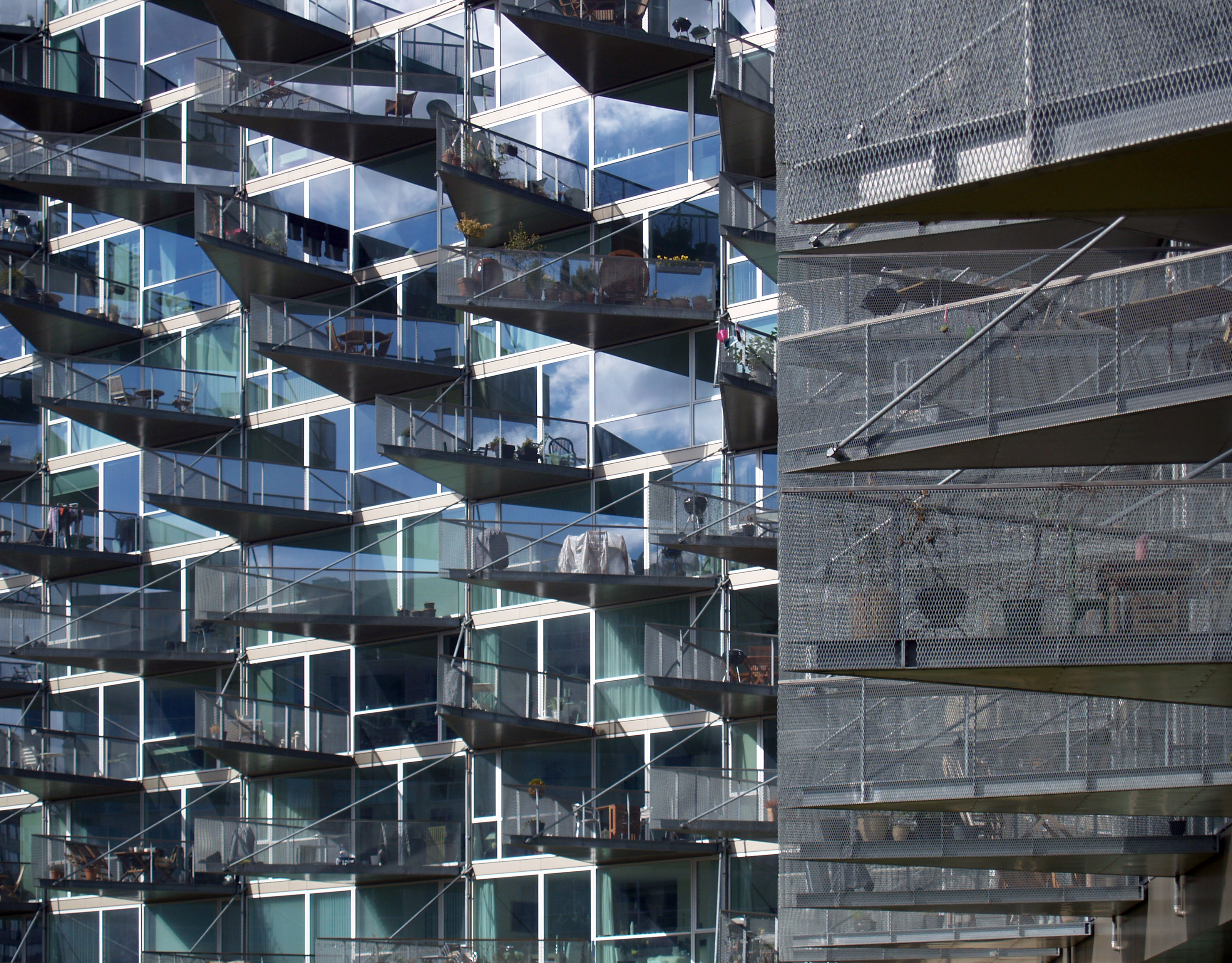 VM-housing, copenhagen, 2002-2005. architects: PLOT, now BIG and JDS architects.